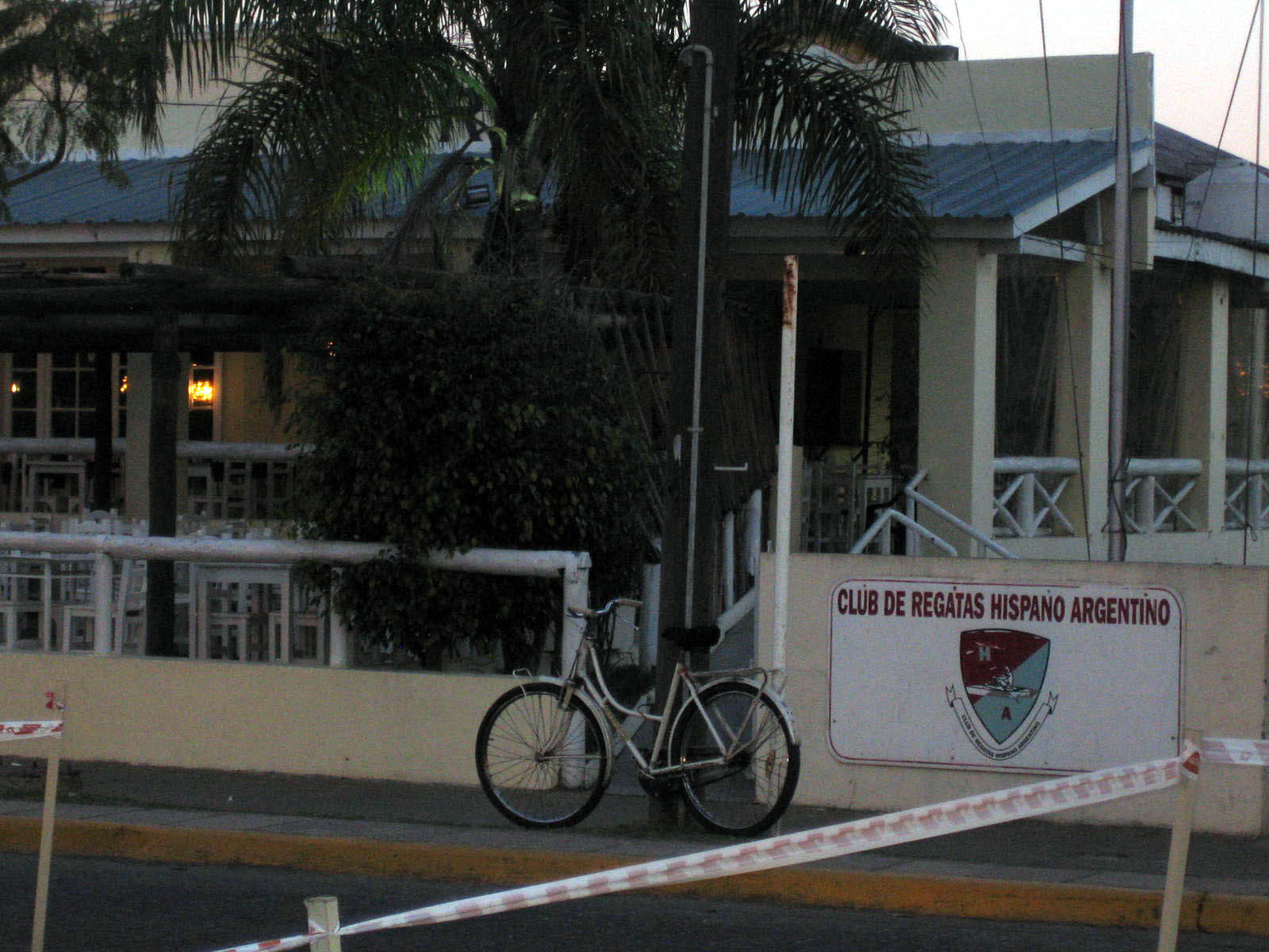 Club de Regatas Hispano Argentino - El Tigre - Buenos Aires - Argentina